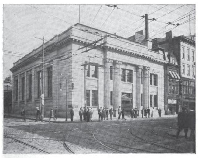 Western German Bank in Cincinnati, Ohio, United States, designed by Tietig and Lee.